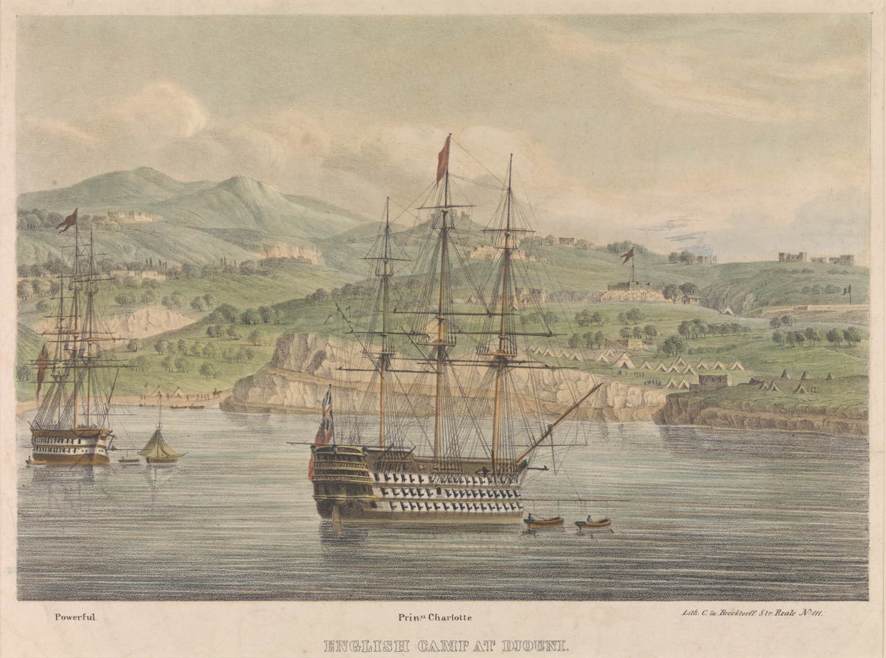 Princess Charlotte. English Camp at Djouni Syria 1840. Shows Powerful RMG PW8043. A view of the ‘Princess Charlotte’ at the English camp at Djouni, Syria in 1840. The tents can be seen in the background on the right. A two-decker sailing vessel, probably the 'Powerful', is anchored on the left of the picture. During the Syrian operations, she was the flagship of Admiral, the Honorable Sir Robert Stopford when he was C.I.C. Coloured lithograph.